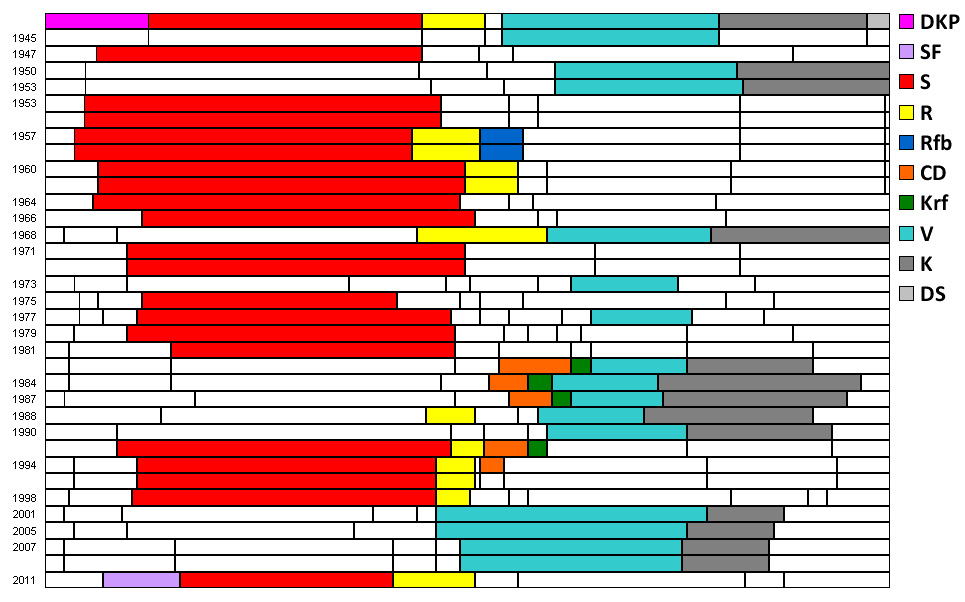 the danish governments' parliamentary basis since 1945